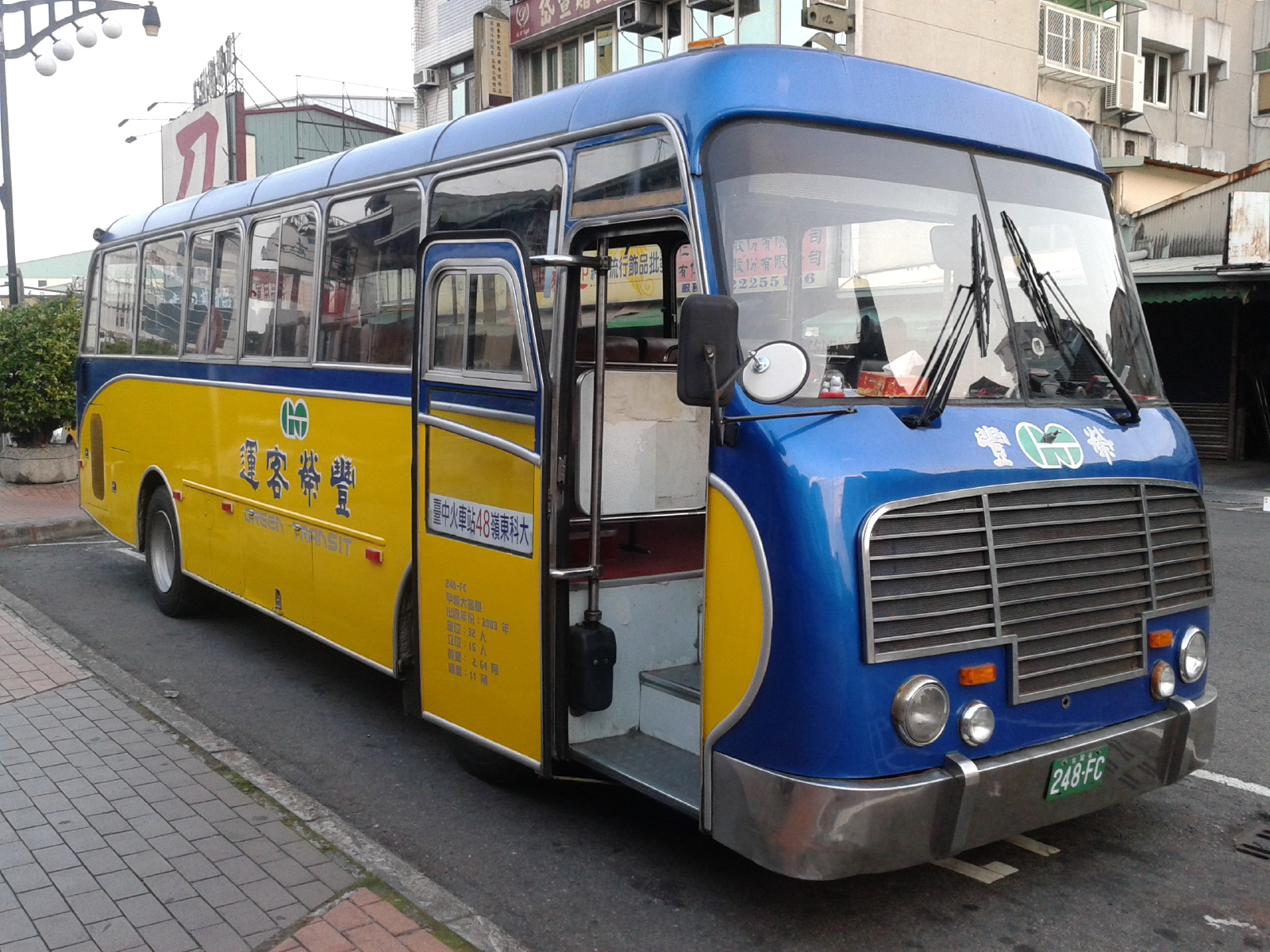 Retro bus of Green Transit Corp